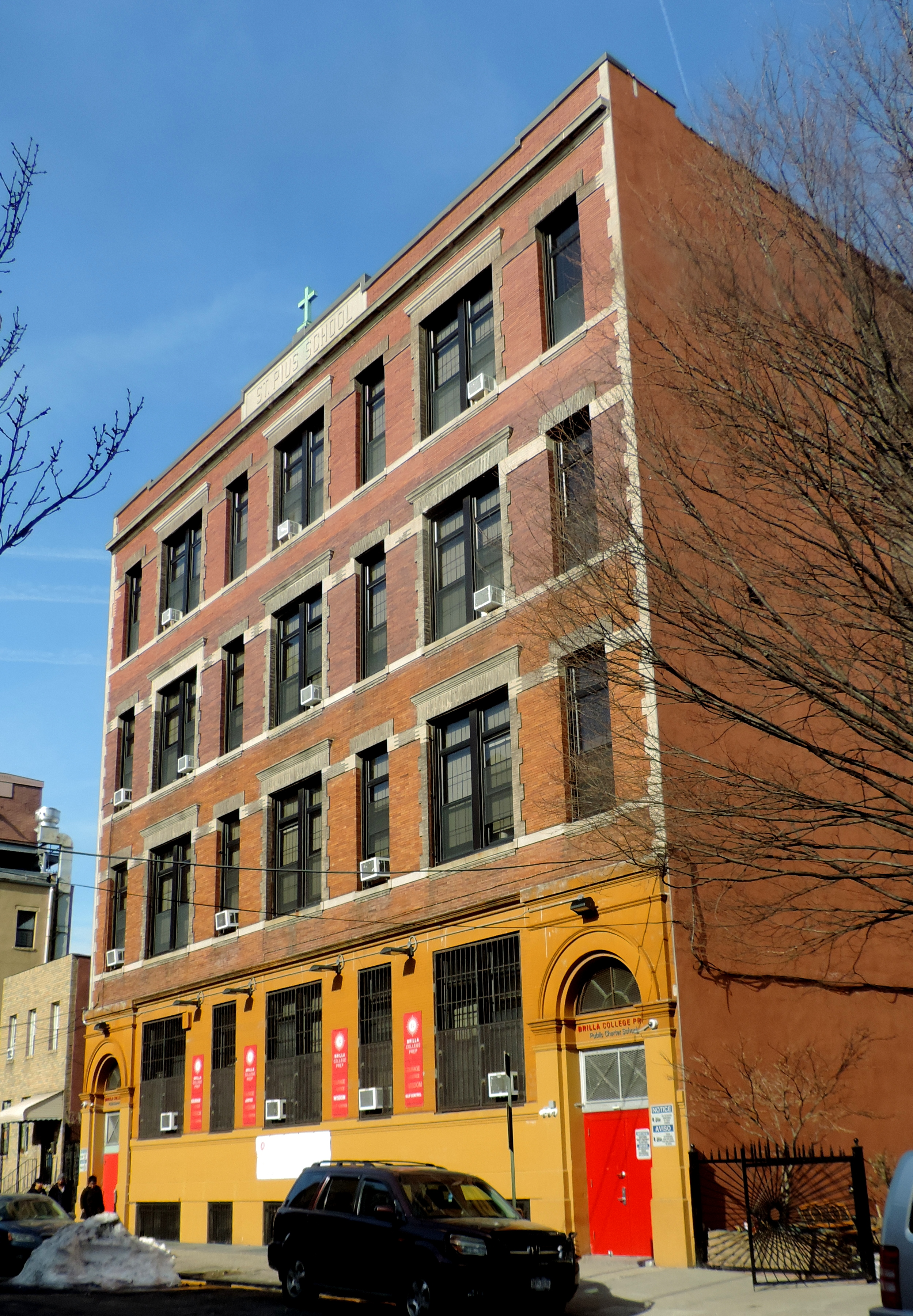 Looking north across 144th Street at Brilla charter school on a sunny midday